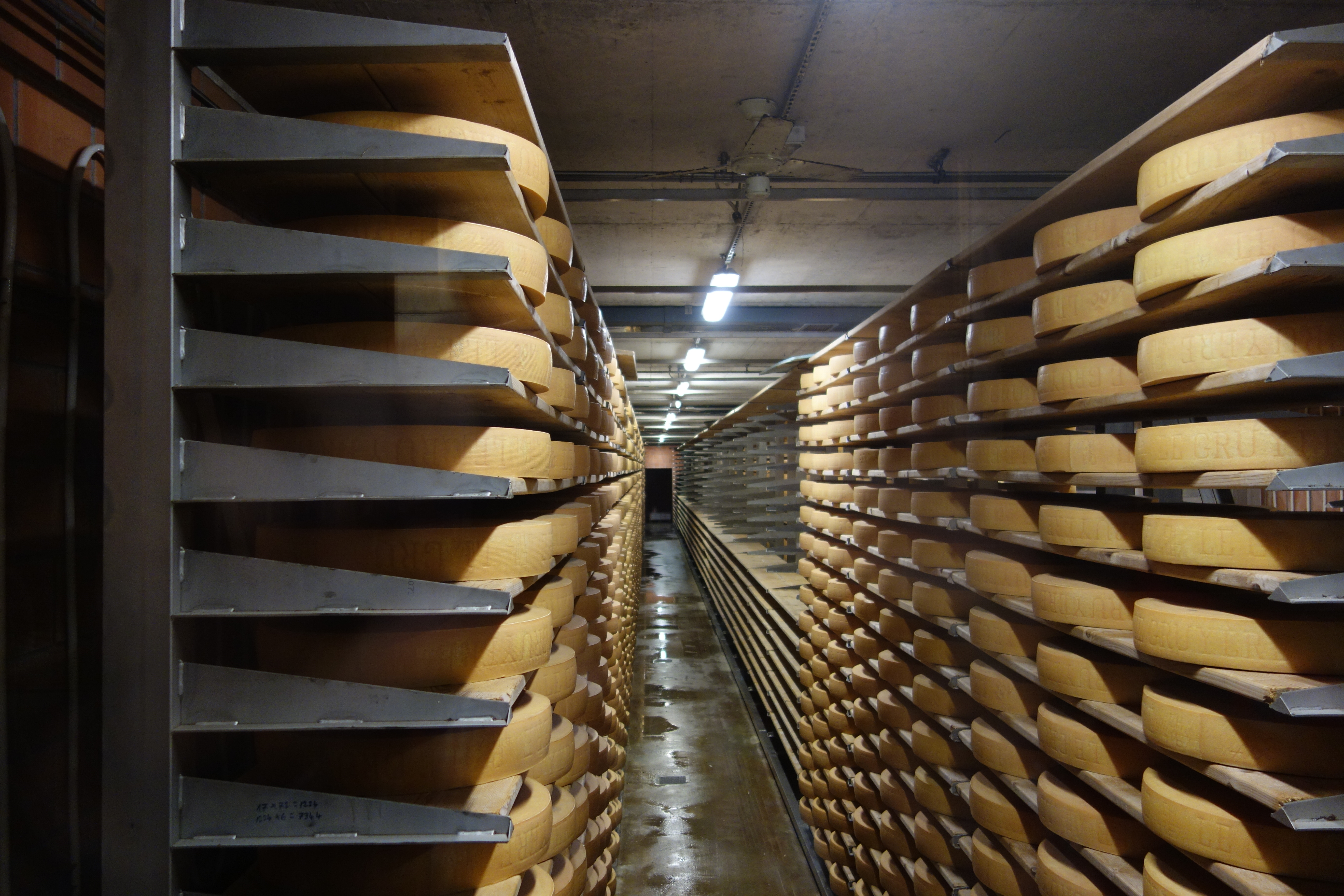 A cave for the maturation of Gruyère cheese in Gruyères, Switzerland.